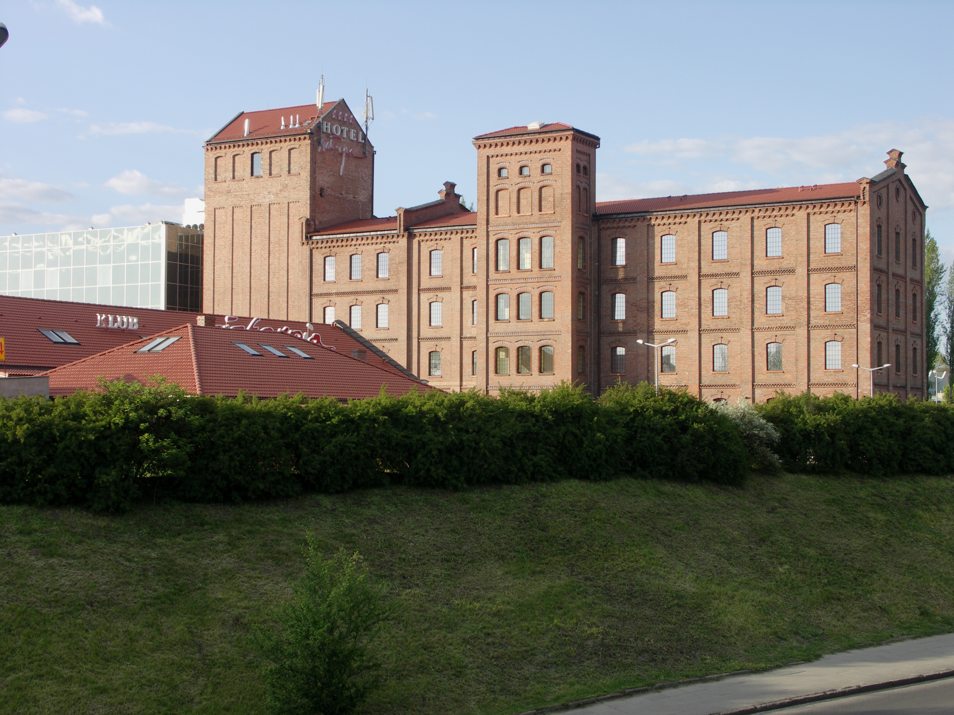 Młyn Hotel (former salt mill) in Włocławek, Poland